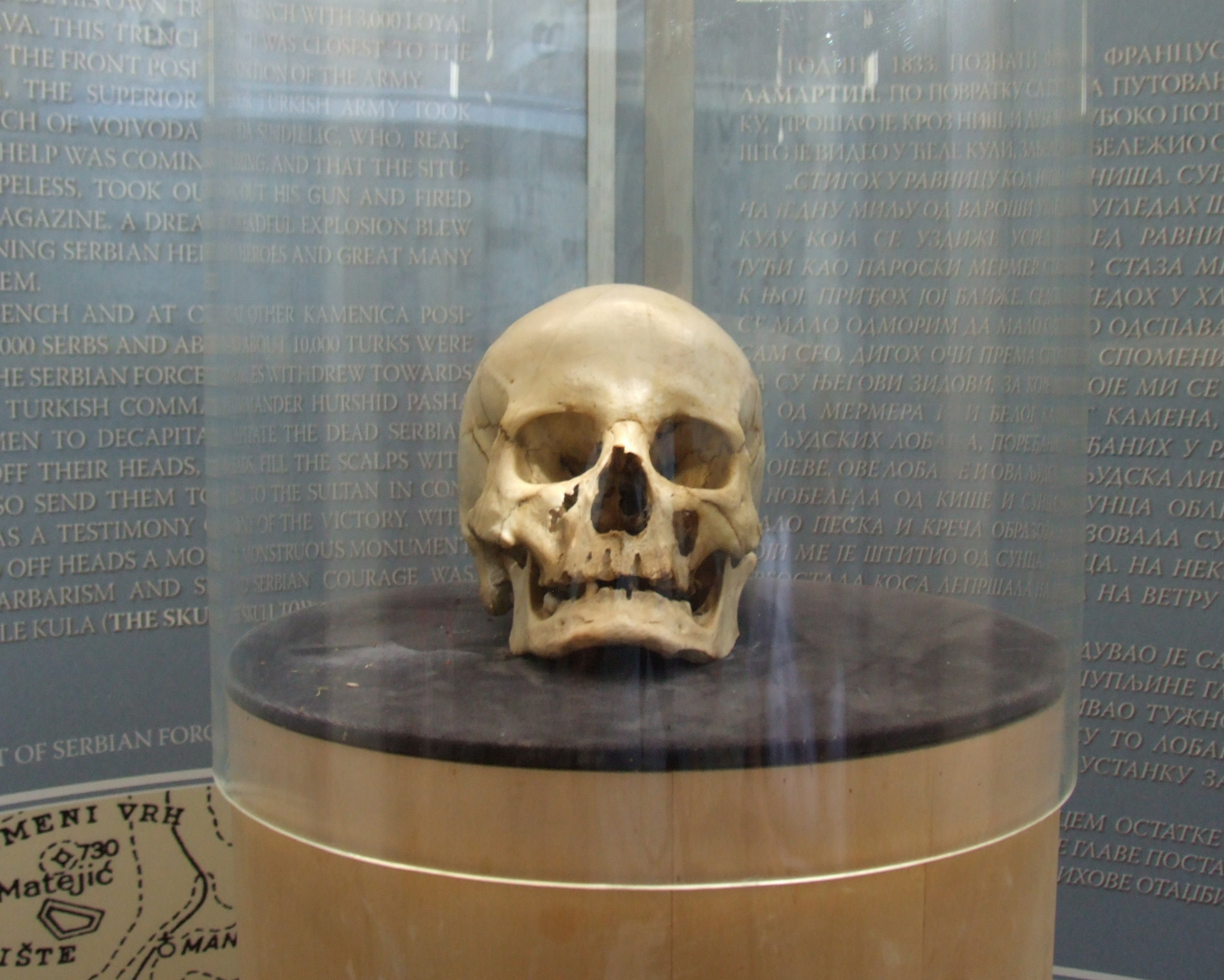 Stevan Sinđelić skull in Skull Tower, Niš 95″ N, 21° 55′ 25.16″ E